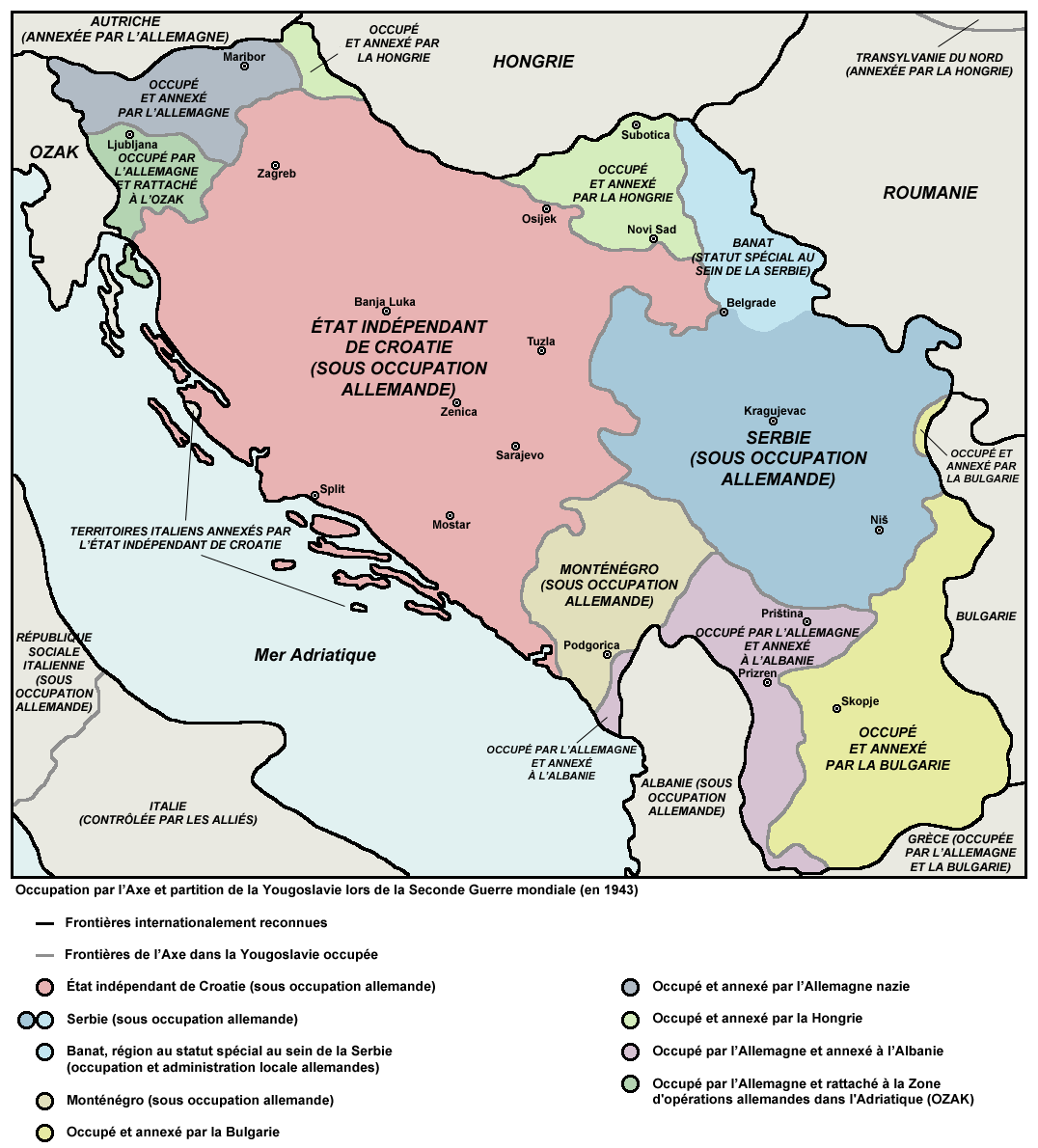 Axis occupation and partition of Yugoslavia in World War II (as of 1943).